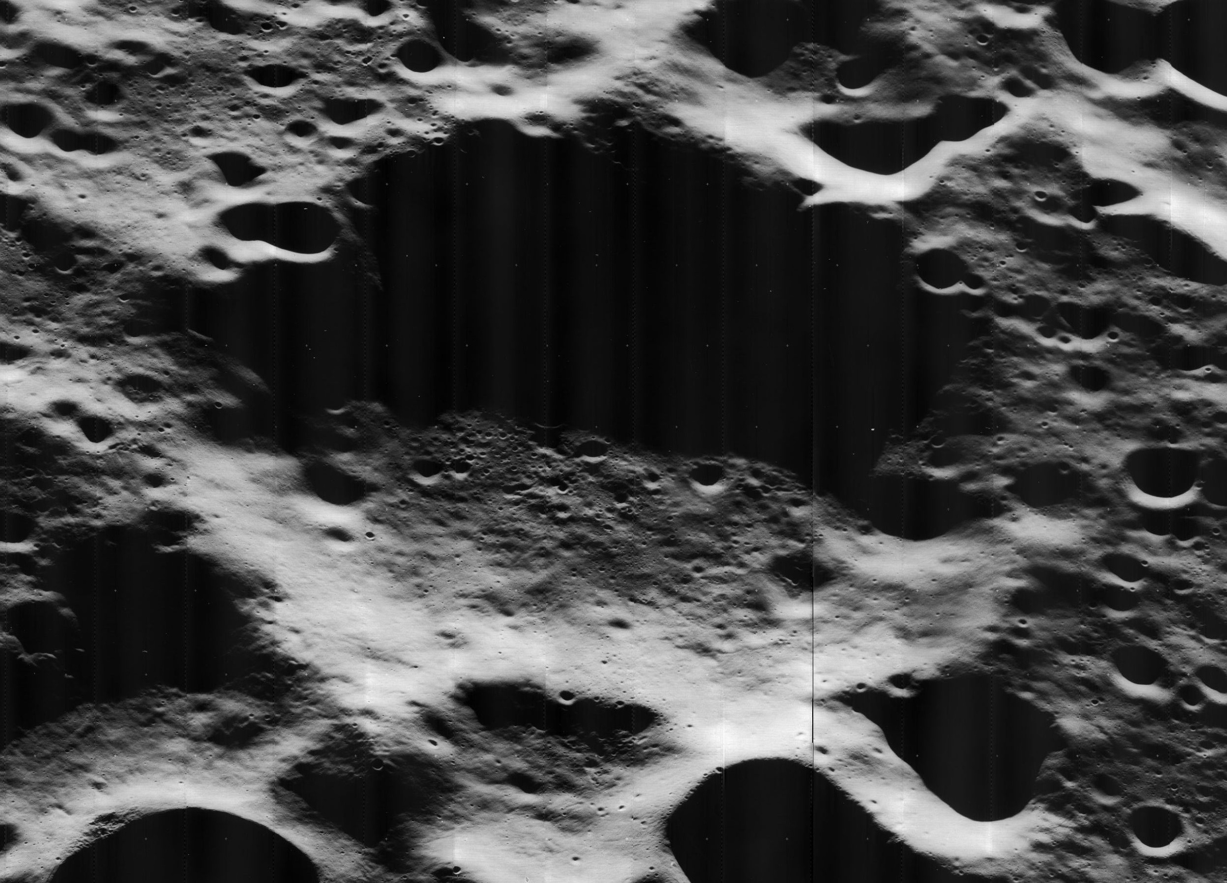 Oblique view of Guillaume, on the far side of the moon, facing west.